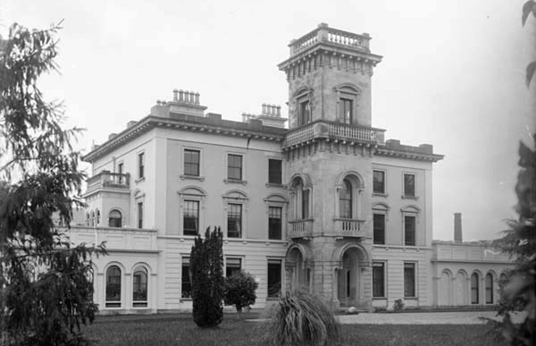 Mayfield house in its prime.